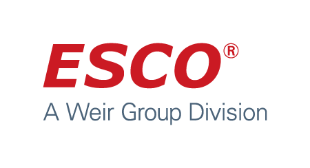 Logo: ESCO Group LCC, A Weir Group Division